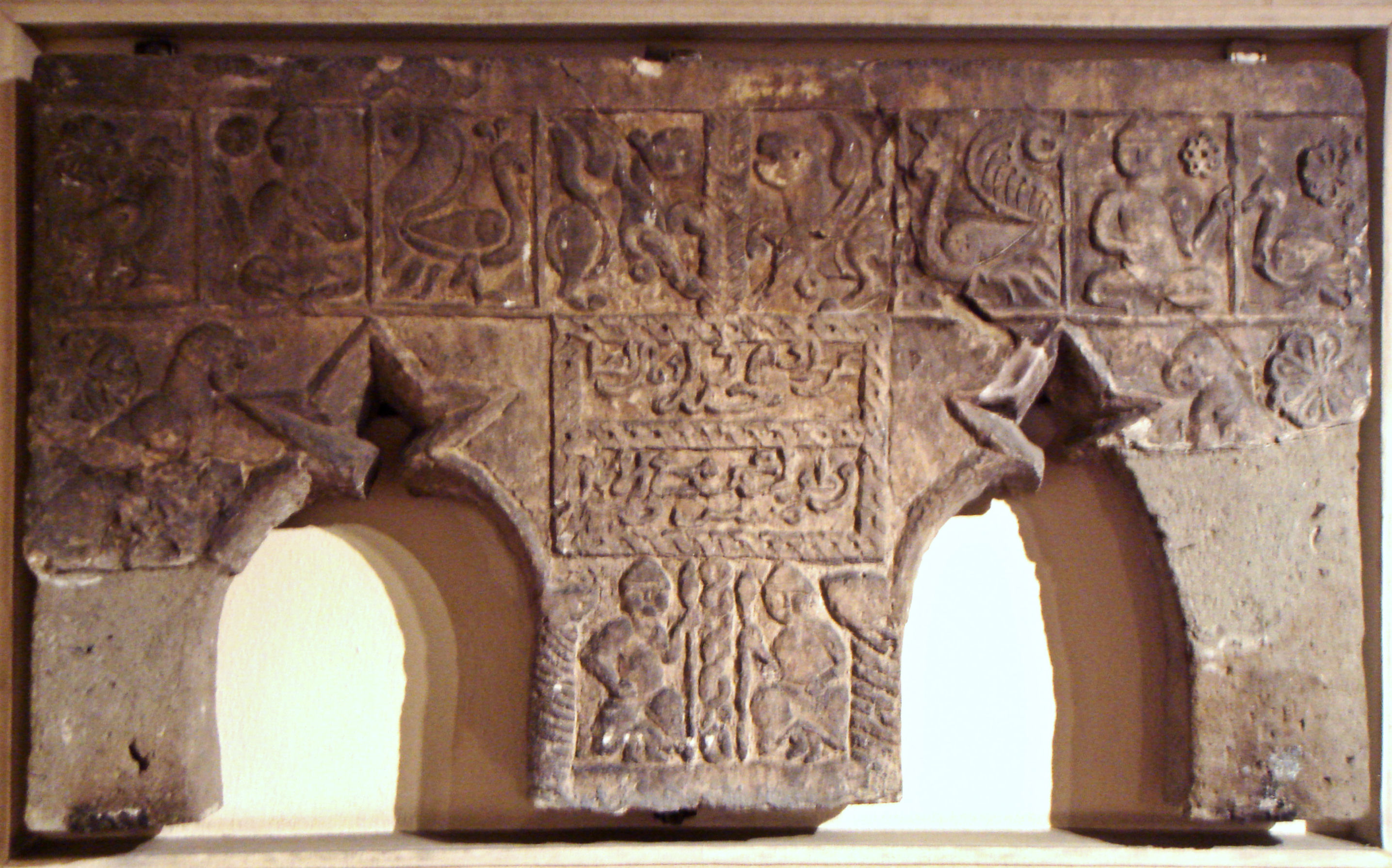 Figurative_architectural_piece_Artukid_period_13th_century.